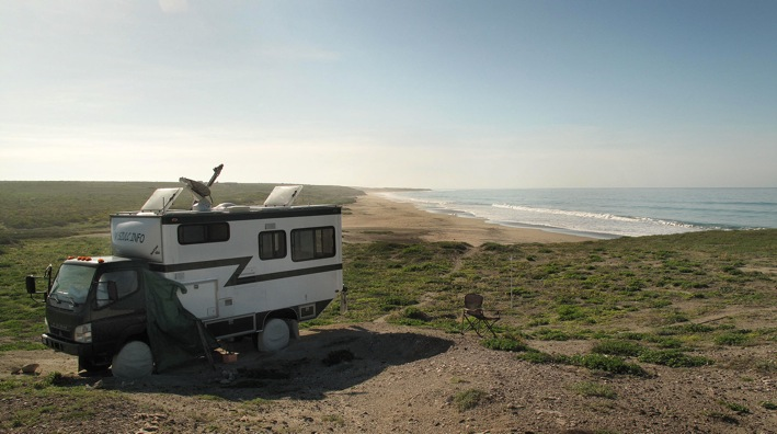 The Fuso Szulc